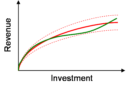 Revenue function instance